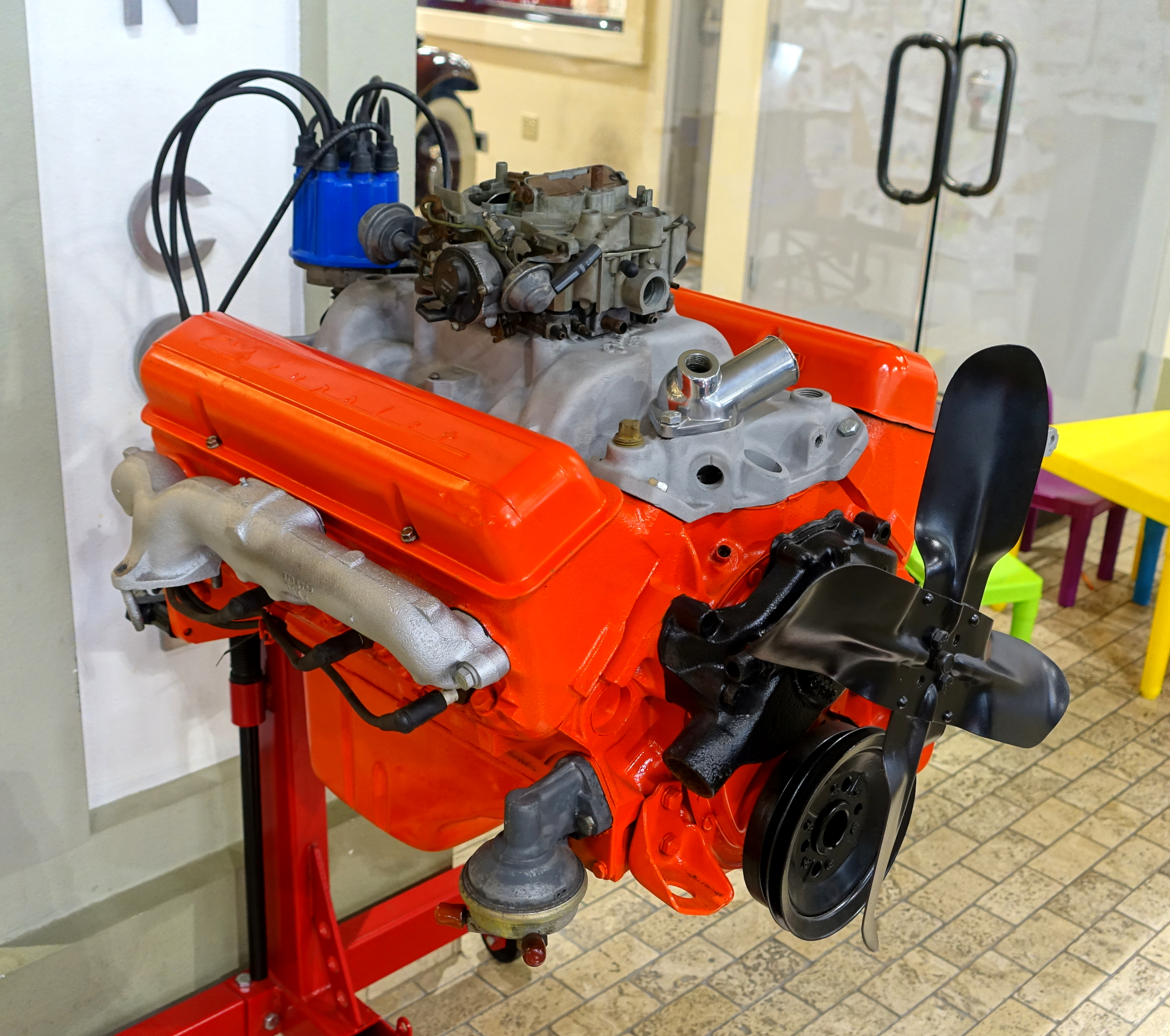 Exhibit in the Automobile Driving Museum - El Segundo, California, USA.